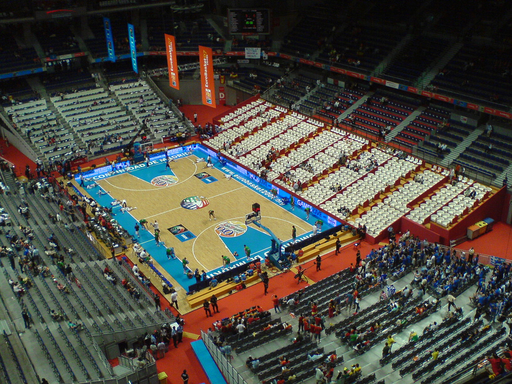 Palacio de Deportes de la Comunidad de Madrid (Madrid, Spain, built 2002–2005). Indoor sports building. Interior view, before the match for the bronze medal of Eurobasket 2007.